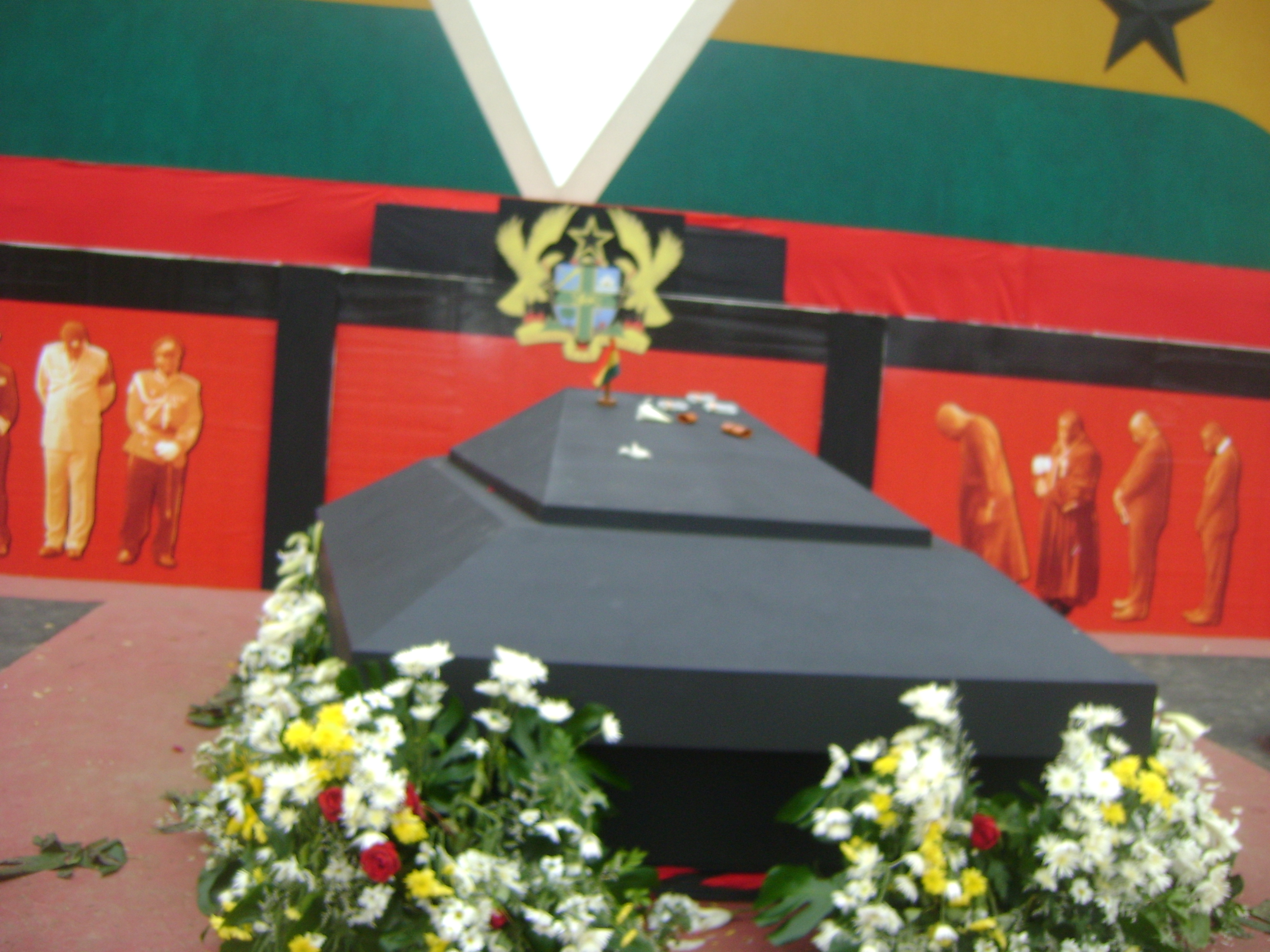 Tombstone of John Evans Atta Mills